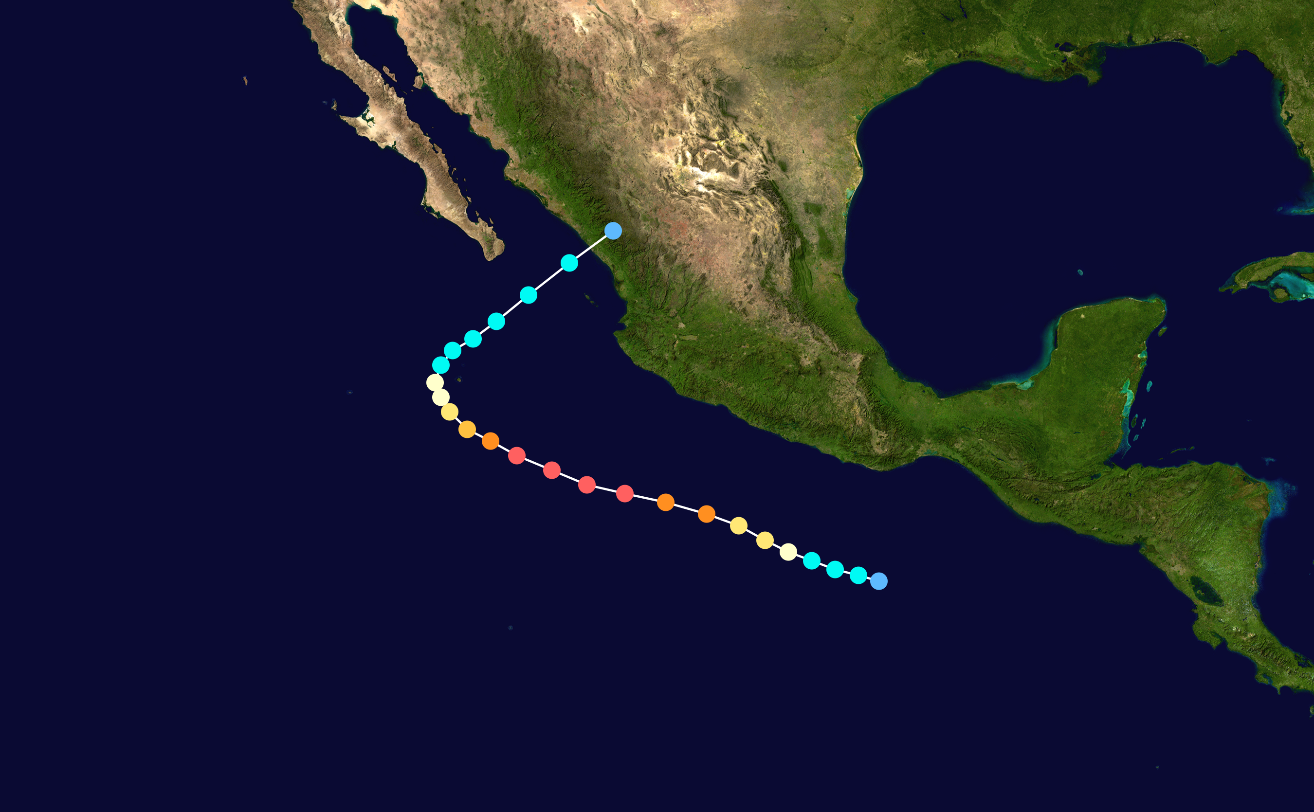 Track map of Hurricane Rick of the 2009 Pacific hurricane season. The points show the location of the storm at 6-hour intervals. The colour represents the storm's maximum sustained wind speeds as classified in the Saffir–Simpson scale (see below), and the shape of the data points represent the nature of the storm, according to the legend below. Saffir–Simpson scale Tropical depression≤38 mph≤62 km/h Category 3111–129 mph178–208 km/h Tropical storm39–73 mph63–118 km/h Category 4130–156 mph209–251 km/h Category 174–95 mph119–153 km/h Category 5≥157 mph≥252 km/h Category 296–110 mph154–177 km/h Unknown Storm type Tropical cyclone Subtropical cyclone Extratropical cyclone / Remnant low / Tropical disturbance / Monsoon depression